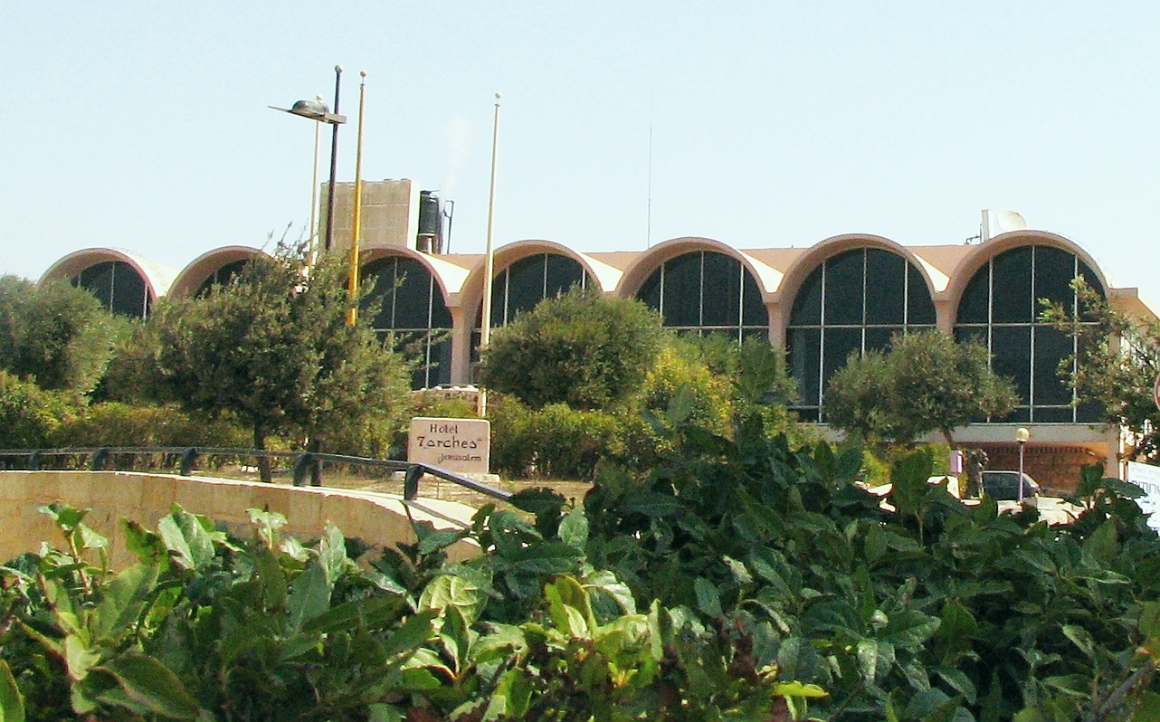 Seven Arches Hotel (formerly the Intercontinental Hotel) on Mt. of Olives.